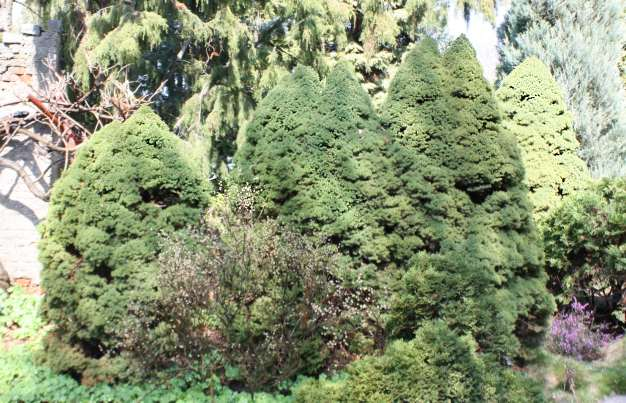 Picea glauca 'Conica'. Brno, CZ